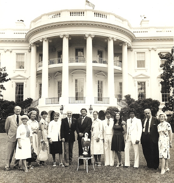 Internationally known Cuban sculptor Manuel Carbonell, presenting his Bicentennial Eagle to a representative of President Ford, as a symbol of freedom, showing his gratitude and making a contribution to his adopted country. June 29, 1976. Now on display at the Ford Museum in Gran Rapids, MI.